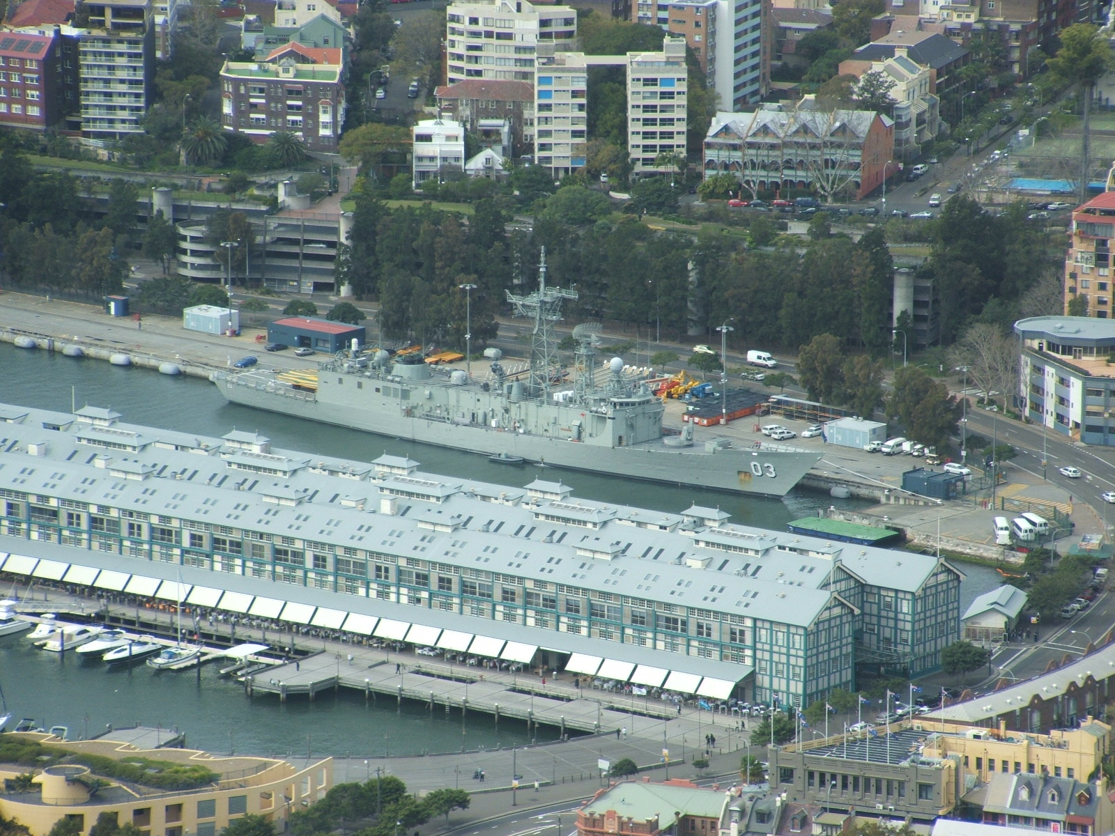 The Australian frigate HMAS Sydney berthed alongside at Fleet Base East (HMAS Kuttabul)